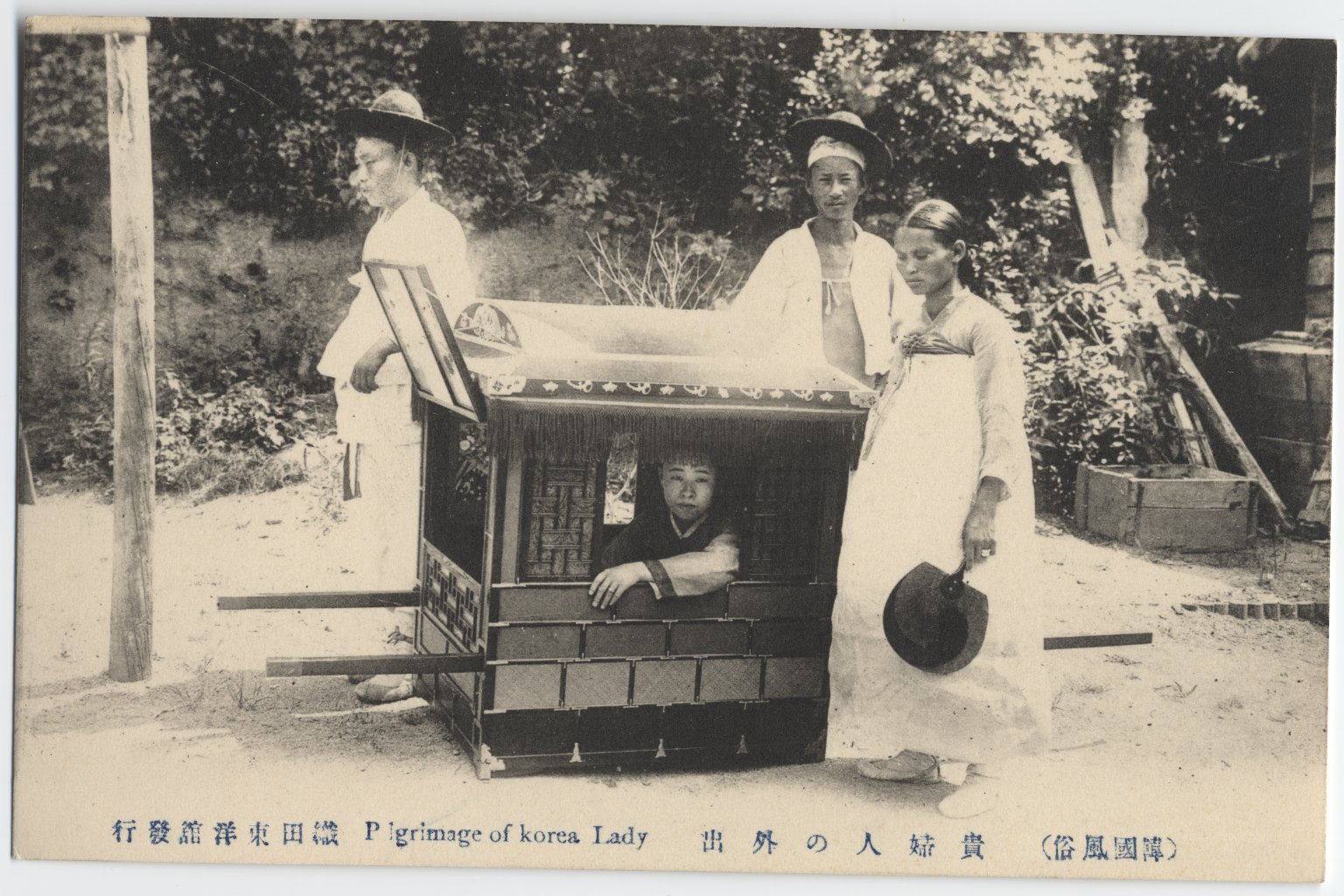 Collection: Willard Dickerman Straight and Early U.S.-Korea Diplomatic Relations, Cornell University Library Title: Pilgrimage of Korea[n] lady Date: ca. 1904 Place: Asia: South Korea Type: Postcards/Ephemera Description: A woman of the upper class of old Korea, riding in a 'kama' (palanquin or sedan chair). The palanquin is carried by the two men in the background. A lady's personal maidservant (in the foreground, holding a traditional fan) follows the palanquin on foot. The caption speaks of a pilgrimage, but the context does not bear out this statement. Inscription/Marks: oImage imprinted with the legend: 'Pilgrimage of korea Lady' Identifier: 1260.74.11.10 Persistent URI: There are no known U.S. copyright restrictions on this image. The digital file is owned by the Cornell University Library which is making it freely available with the request that, when possible, the Library be credited as its source. We had some help with the geocoding from Web Services by Yahoo!